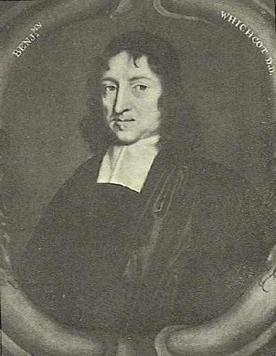 Benjamin Whichcote, one of the Cambridge Platonists and famous latitudinarian minister, from around 1683.